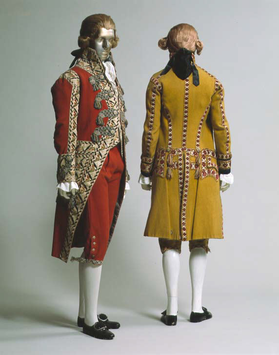 Italian; Livery